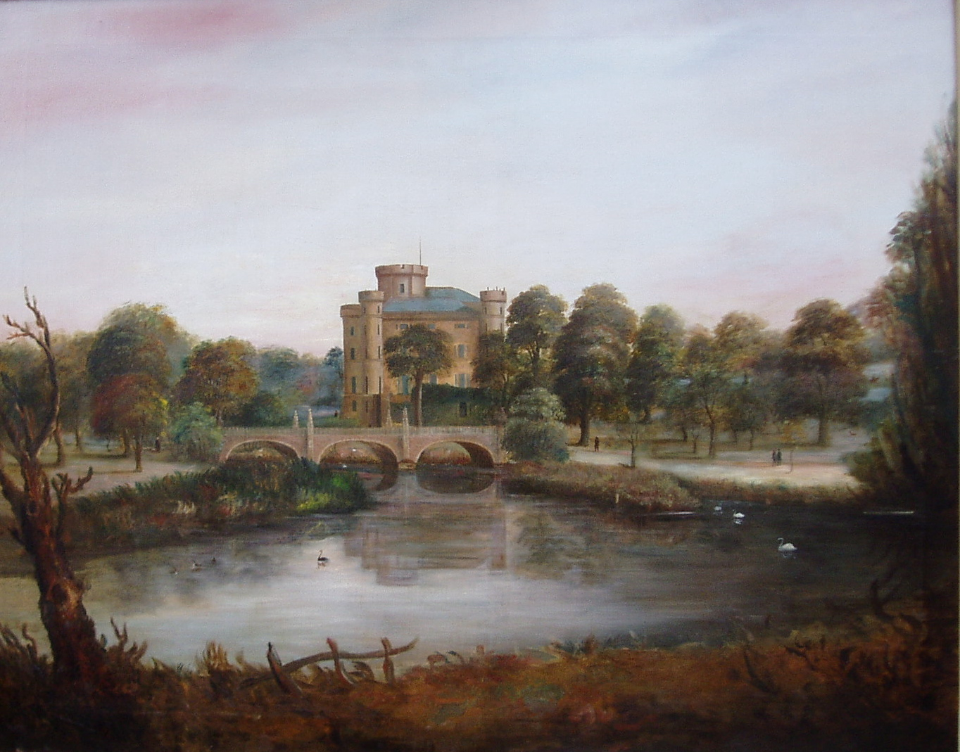 A view of Eglinton Castle, Kilwinning, North Ayrshire, Scotland. Circa 1830s.